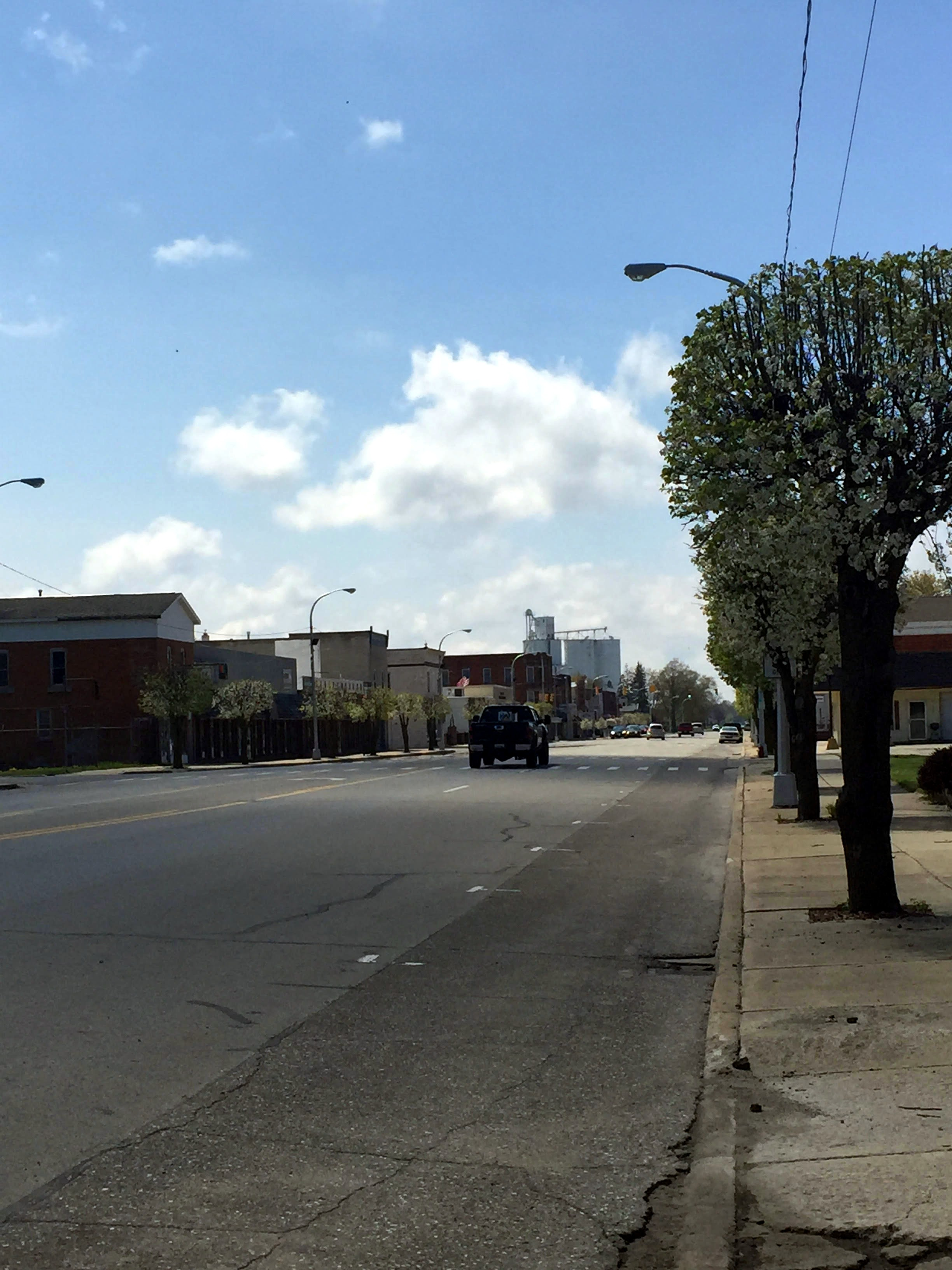 State highway M-81/Main Street (facing west), Cass City, Michigan.